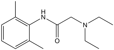 Molecular structure of lidocaine (lignocaine). Created with ChemDraw.